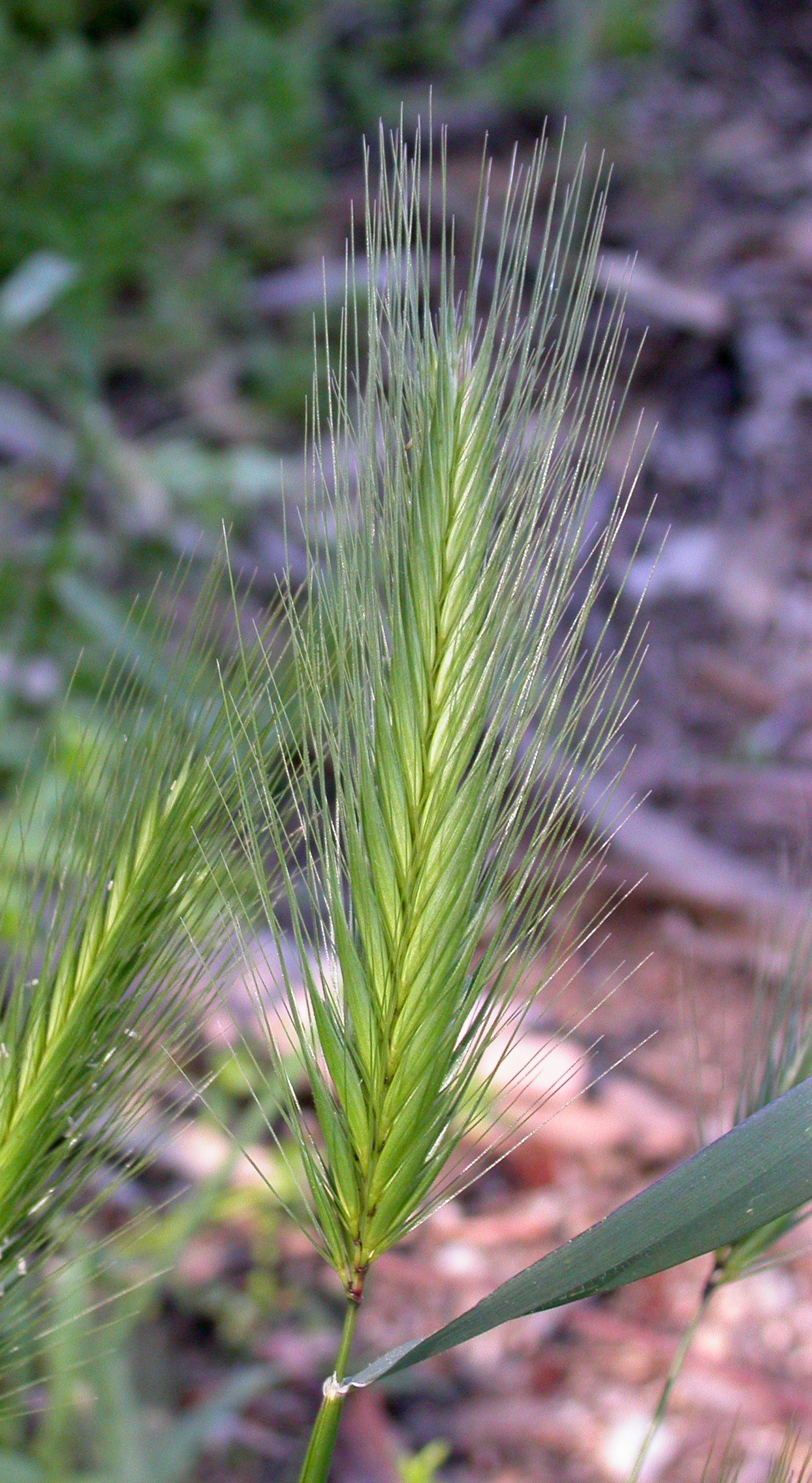 Hordeum murinum — wall barley or false barley, (introduced grass species) Growing in the the Voorhis Ecological Reserve at California State Polytechnic University, Pomona, California. Source: Curtis Clark